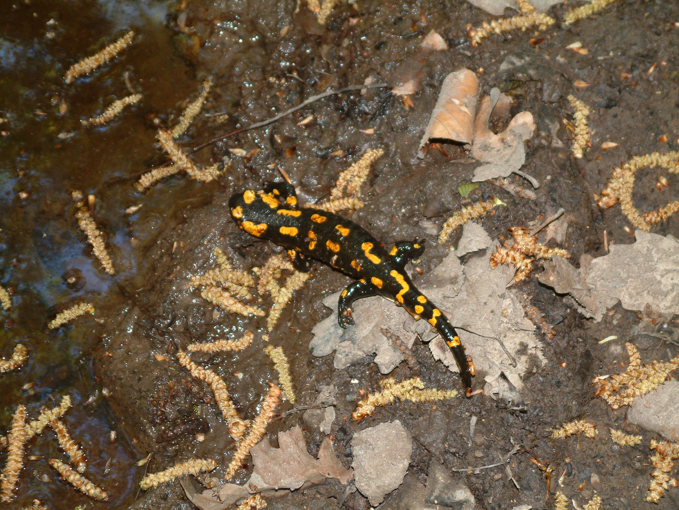 Fire salamander (Salamandra salamandra) in the Börzsöny, close to Nagybörzsöny